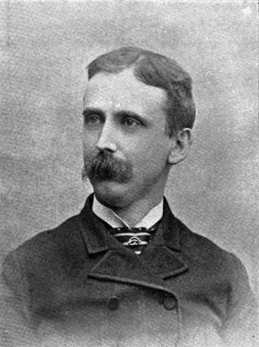 Julius Chambers (1850–1920) American journalist and travel writer in 1872